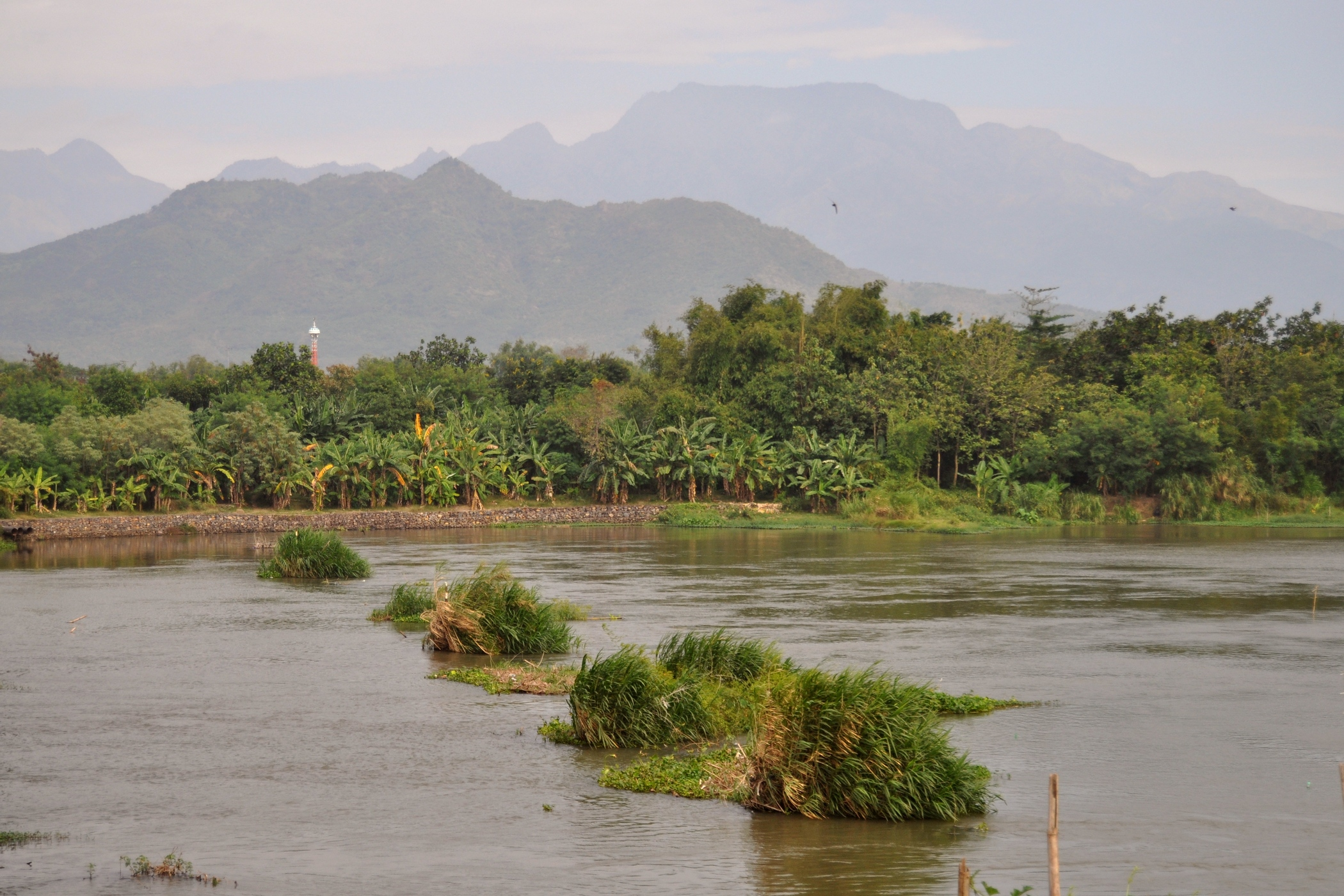 Brantas river passing Kediri city. Far west is Mount Wilis.